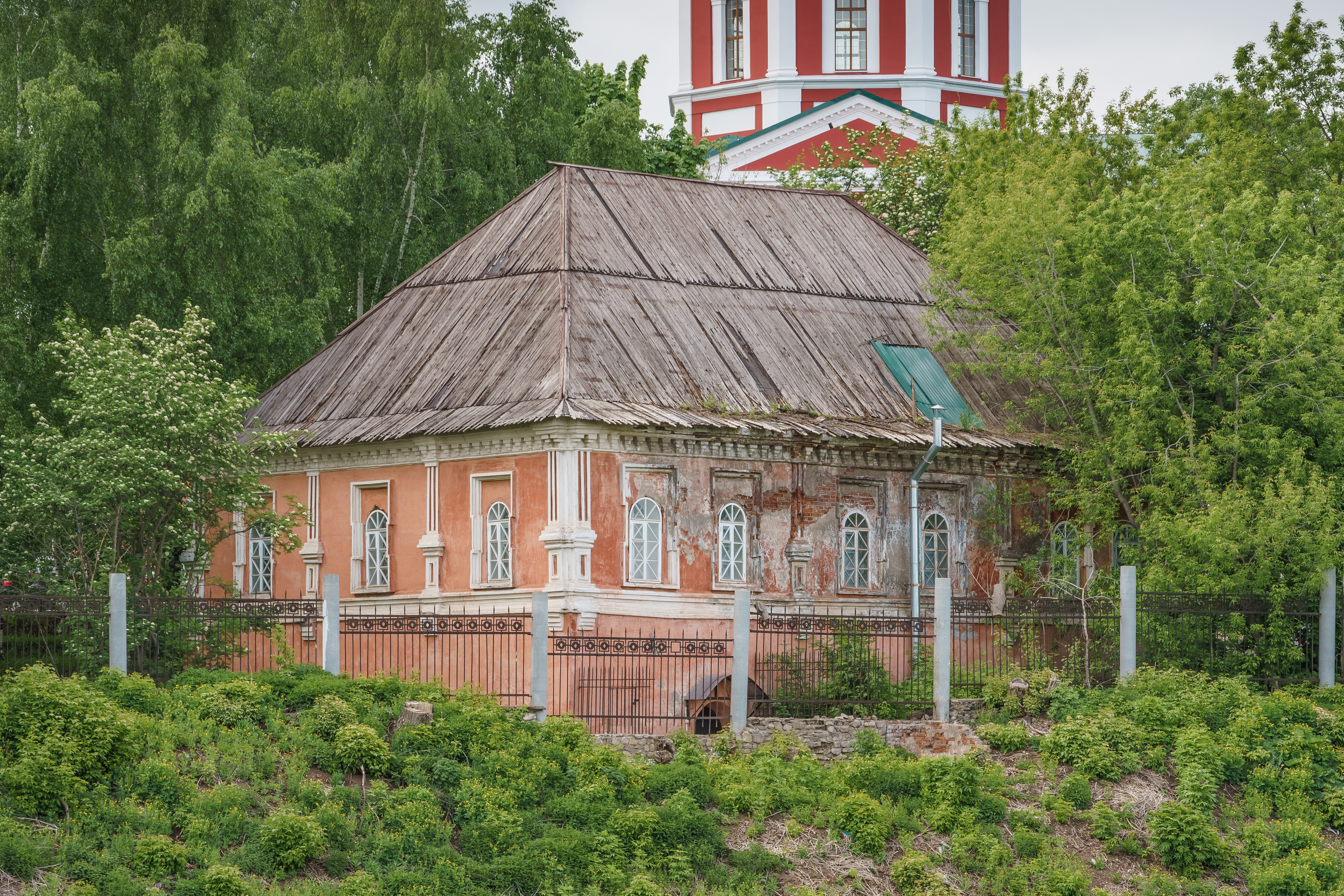 Historical Prikaz House in Kirov, Russia